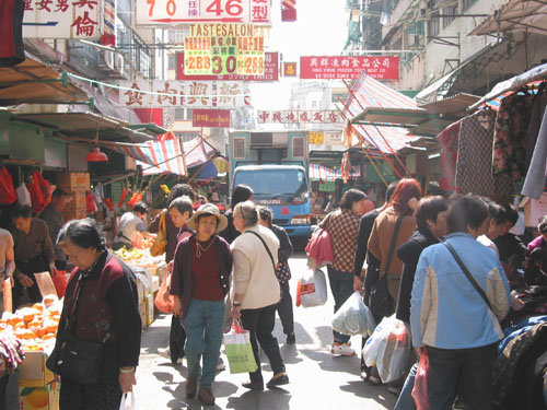 Mongkok Market, Photoed by Gakmo.中文（香港）: 旺角市場，Gakmo攝影。